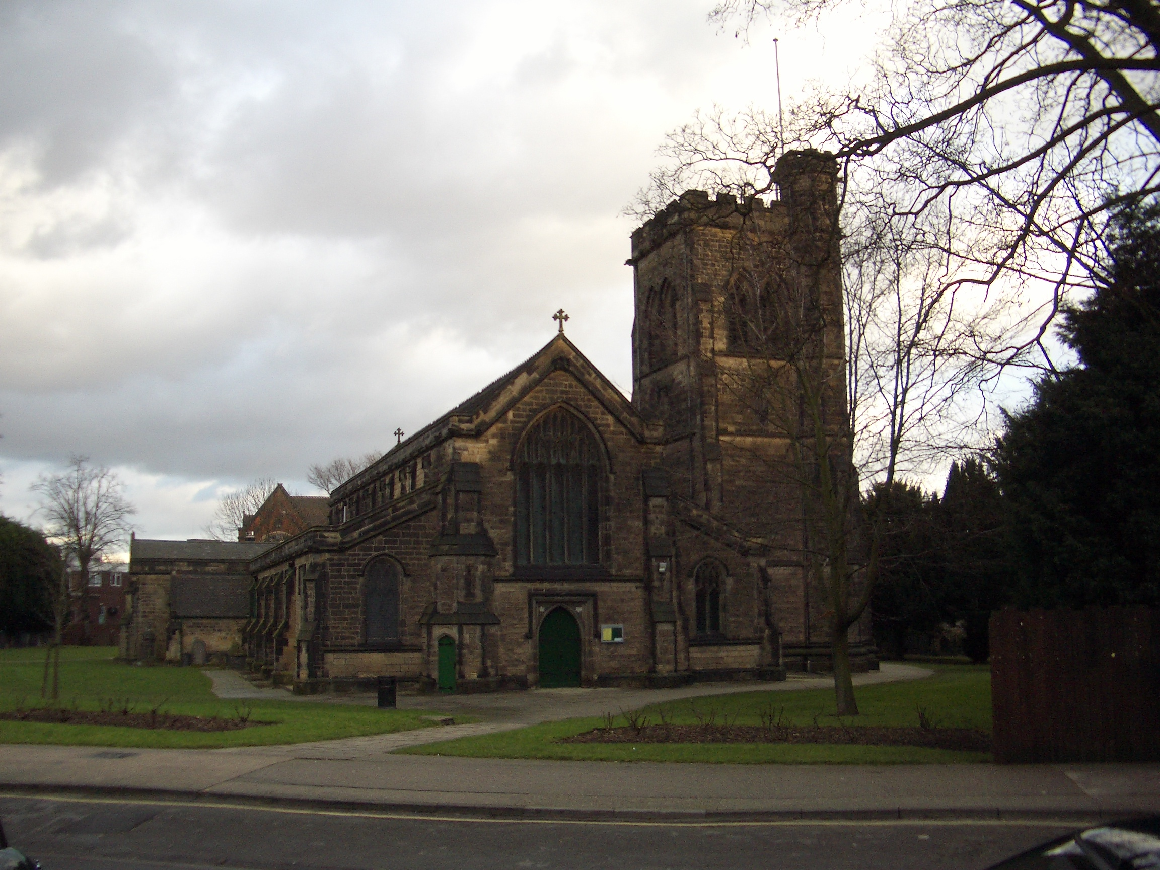 The Parish Church of St. John the Baptist Church, Beeston.